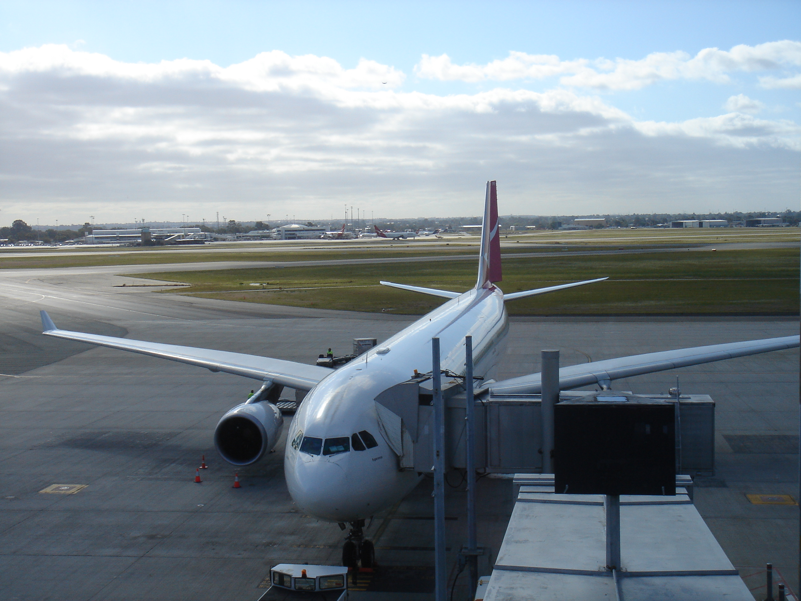 Qantas Airbus A330-303 (VH-QPF) at Perth International Airport.